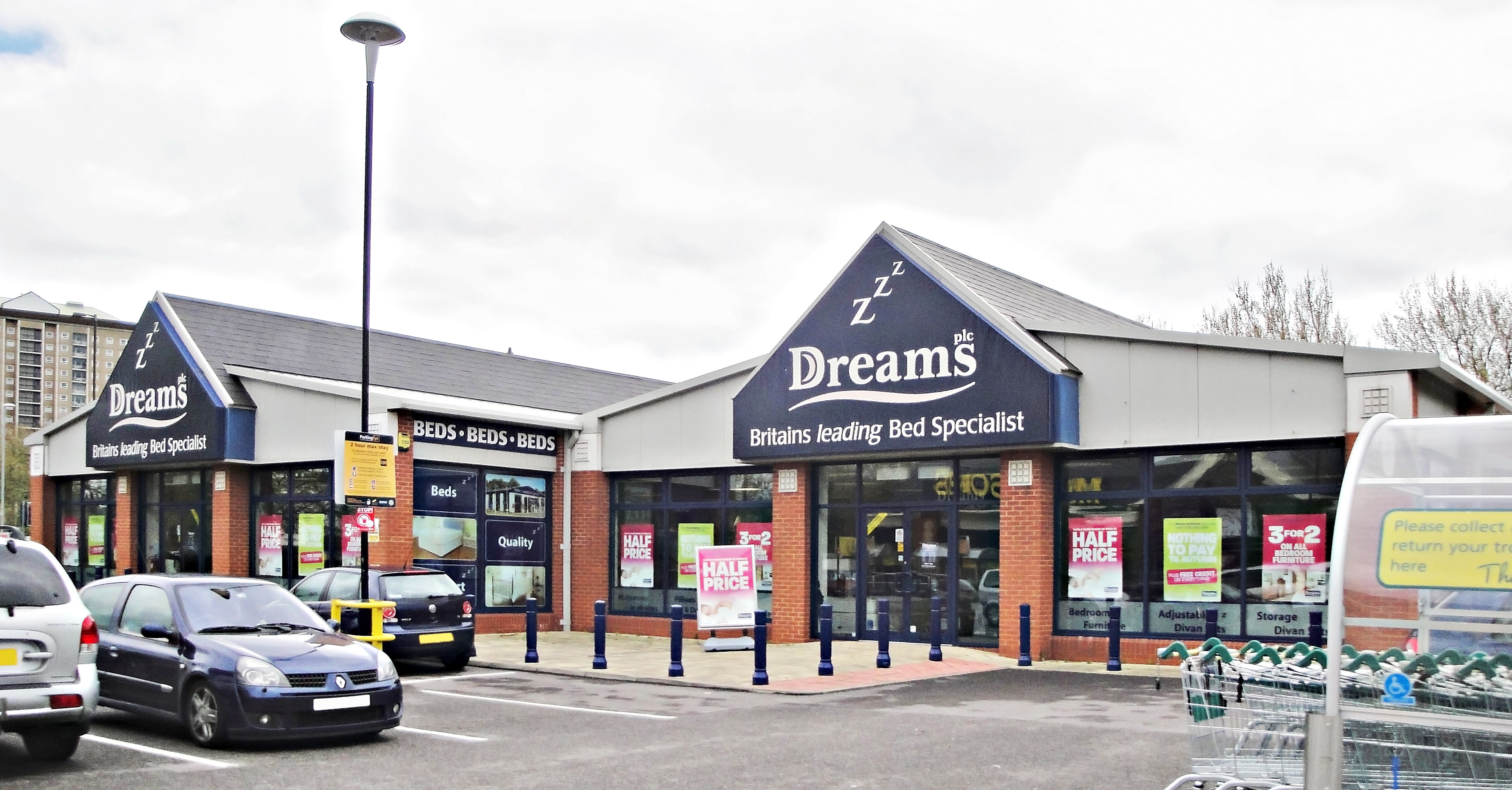 The branch of Dreams, at Victory Retail Park, Portsmouth, Hampshire.